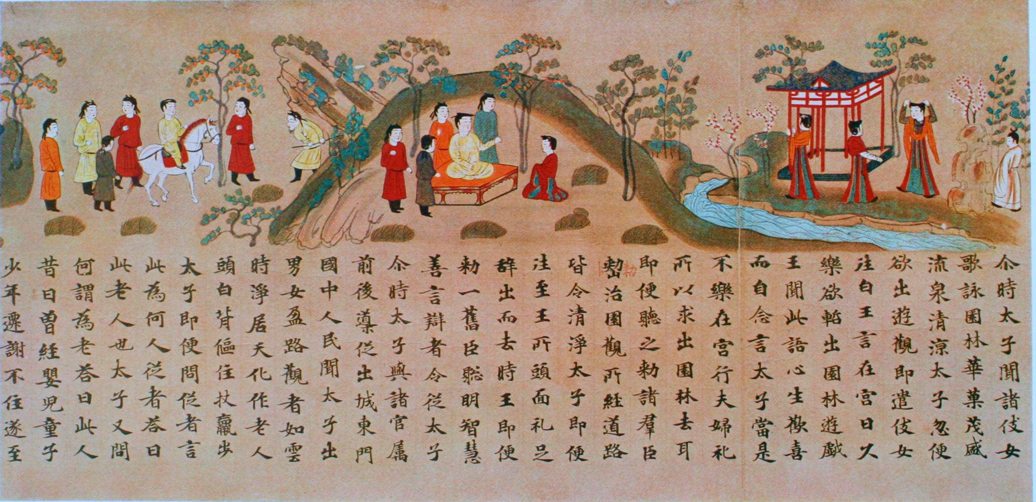 Part of the Illustrated Sutra of Cause and Effect (E_NGA_KYO) . Handscroll (Emakimono), 26.4 cm x 1036.4 cm. Color on paper. 8th century, Located at Jōban Rendai-ji, Kyotoi, Japan